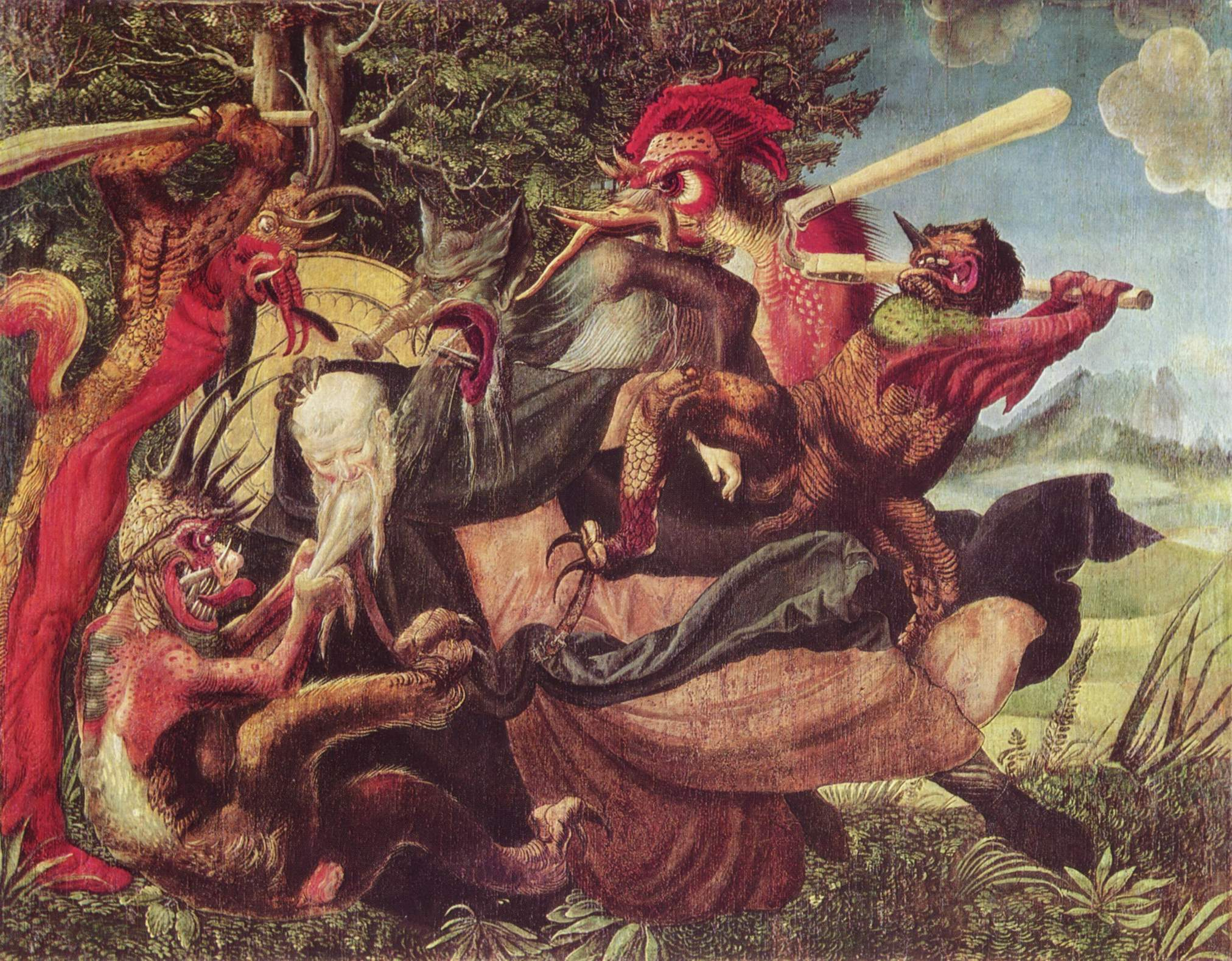 The Temptation of Saint Anthony: Antonius altar, left wing outside